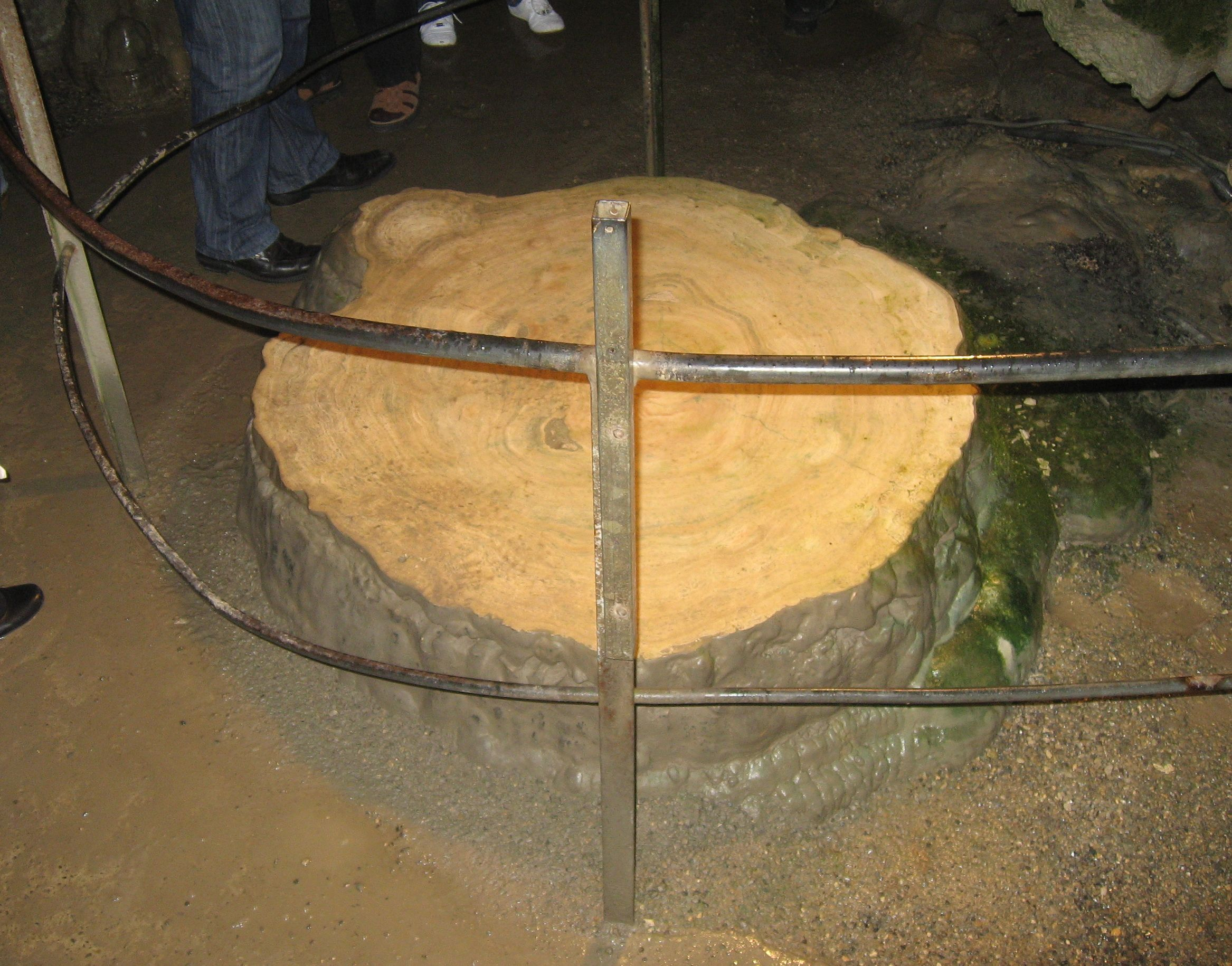 sawed down dripstone